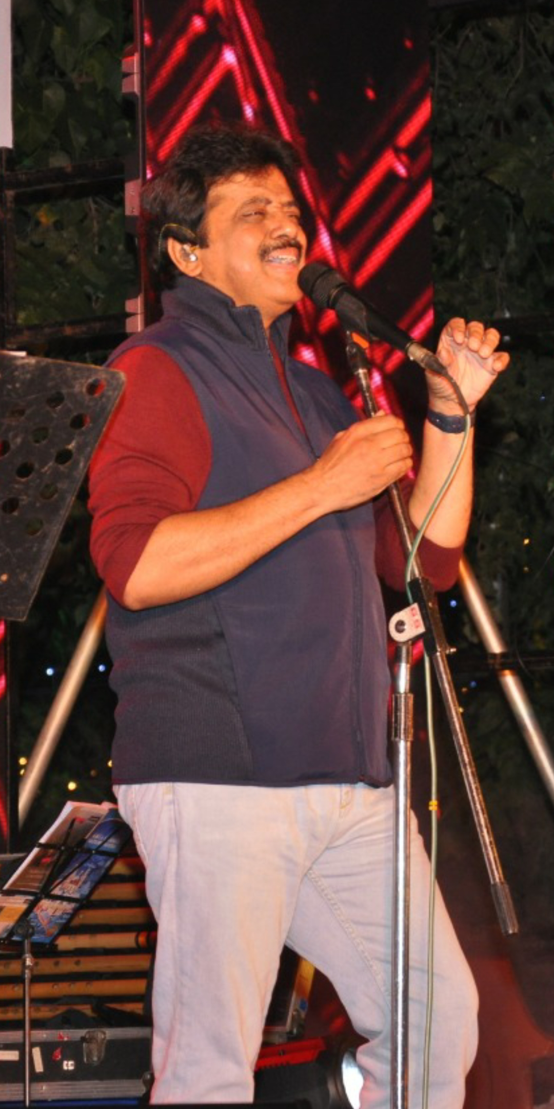 SreenivasPerforming